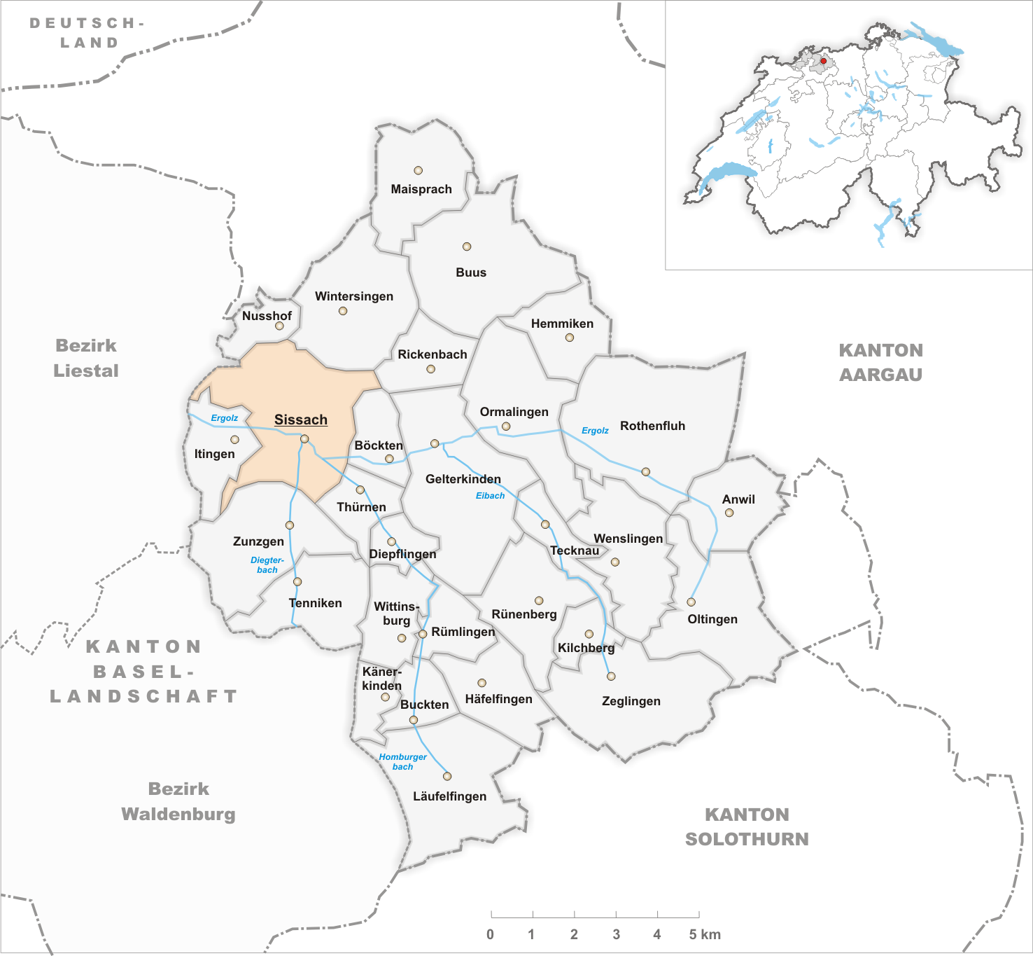 Municipality Sissach